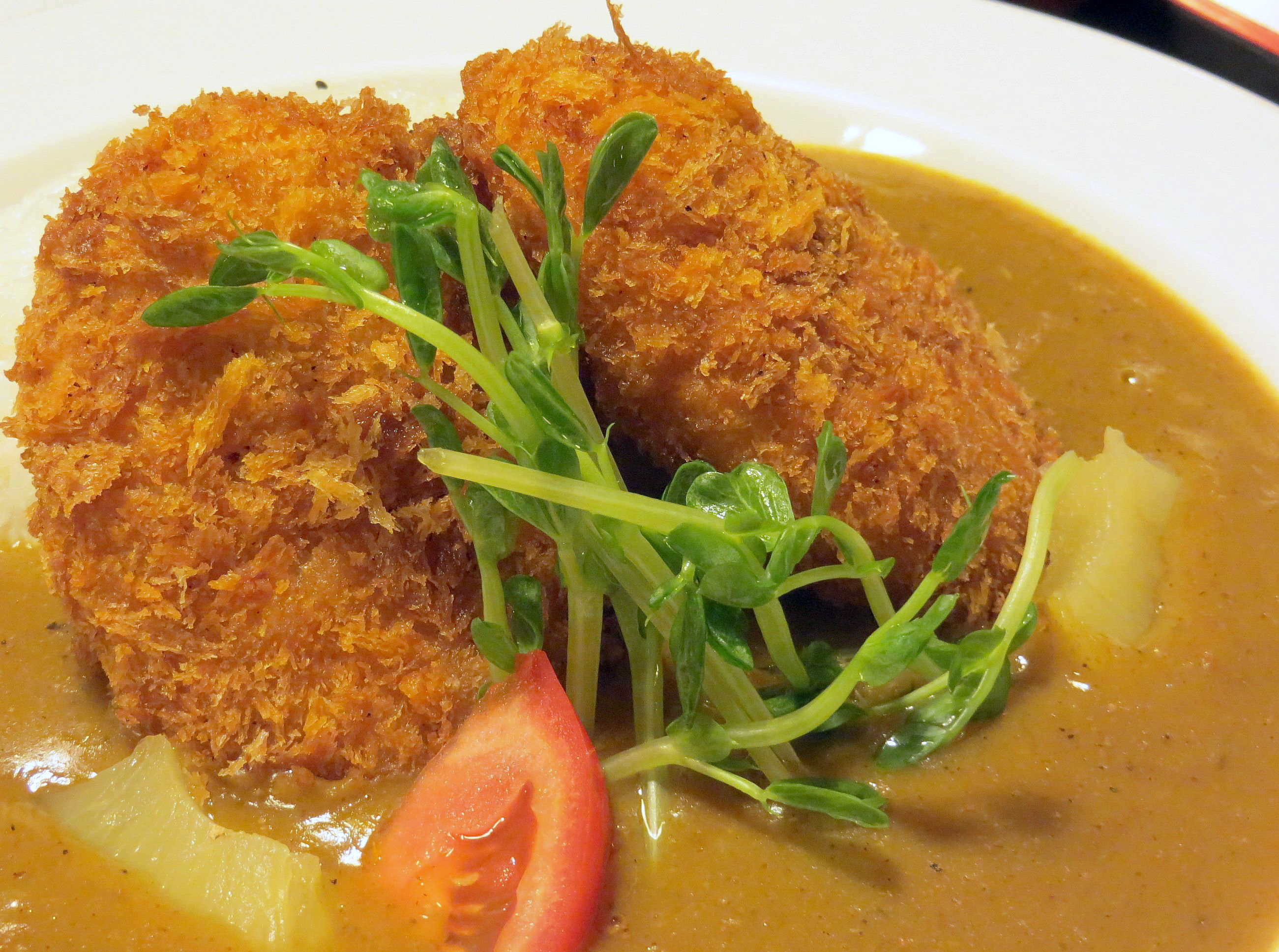 Korokke in curry sauce